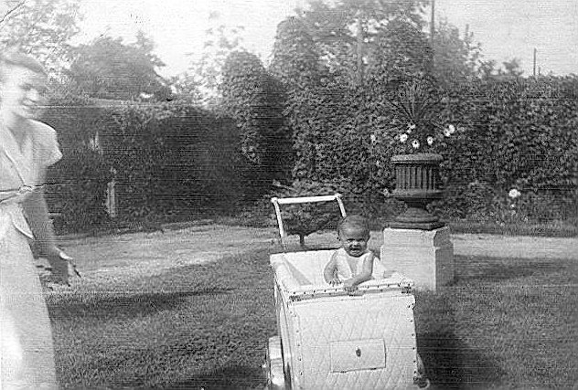 Baby carriage (1st half of 20th cent). The beautiful park in Buzanszky stadium, Dorog